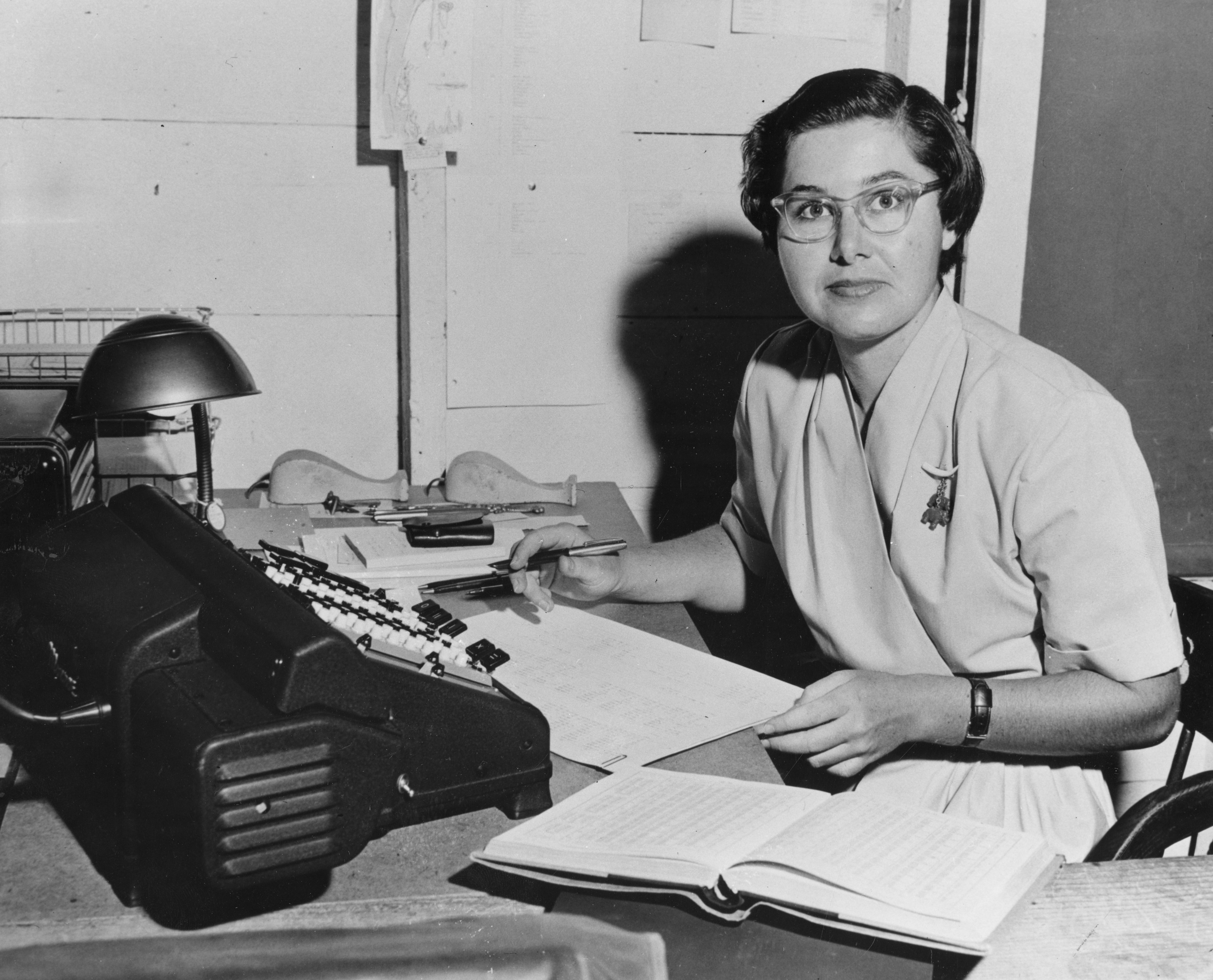 Astronomer Elizabeth Roemer (1929–2016) won the 1946 Science Talent Search and went on to discover the asteroids 1930 Lucifer (discovered October 29, 1964) and 1983 Bok (discovered June 9, 1975). Dr. Roemer is Professor Emerita, Lunar and Planetary Laboratory, University of Arizona Cite as: Acc. 90-105 - Science Service, Records, 1920s-1970s, Smithsonian Institution Archives